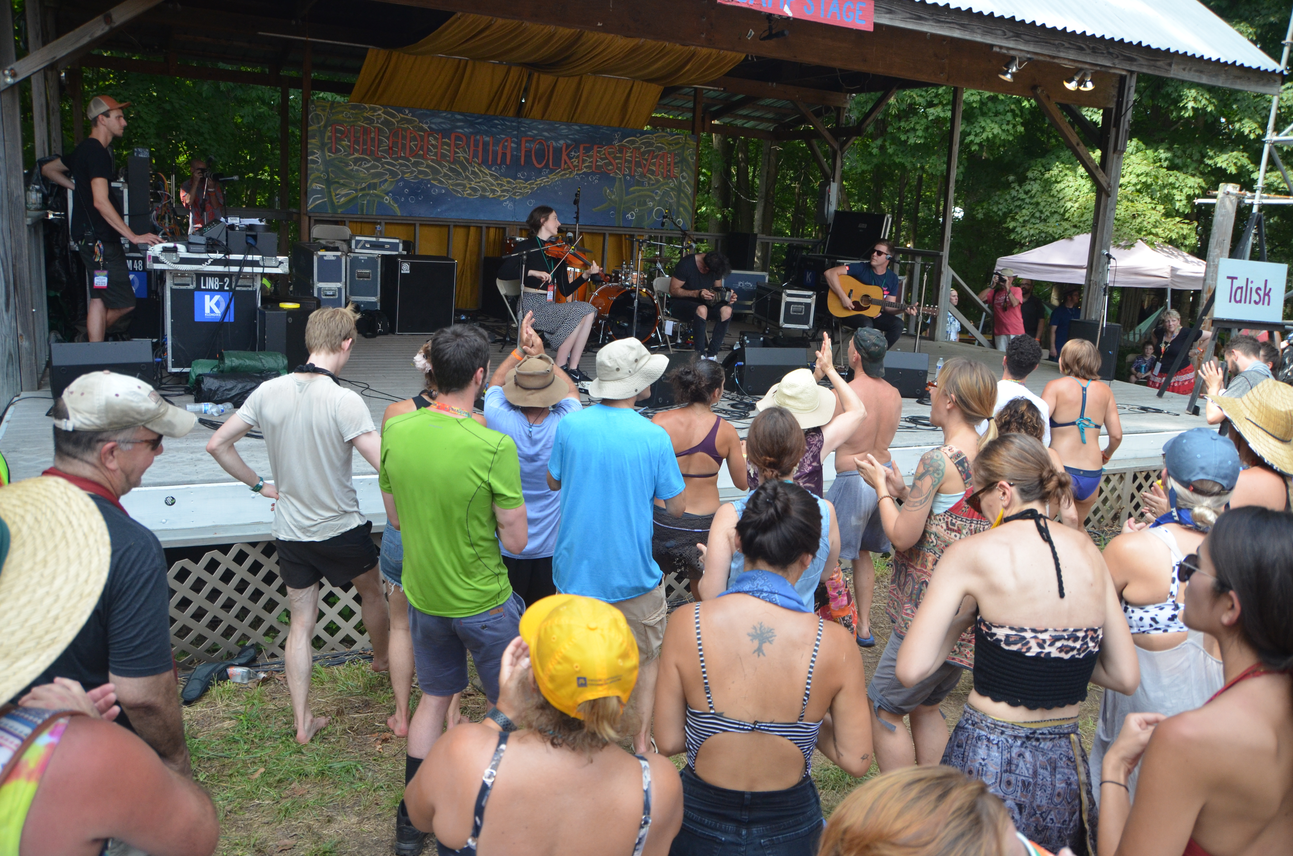 The Scottish band Talisk knows how to get them on their feet despite very hot weather at the 2019 Philadelphia Folk Festival